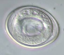 Gastrointestinal parasites in seven primates of the Taï National Park - Helminths Figure 3c of paper. Egg of Subulura sp.